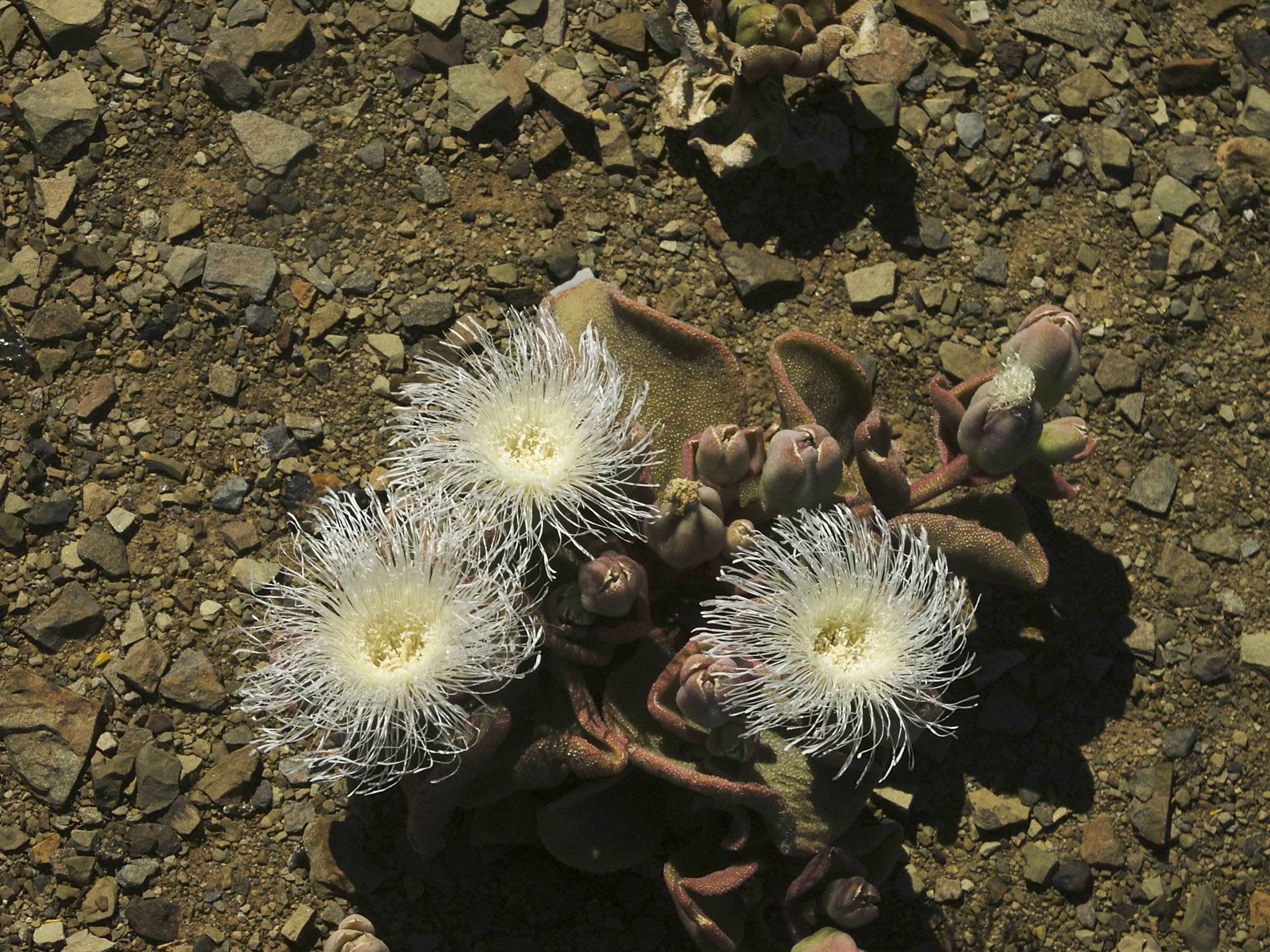 Mesembryanthemum crystallinum near the border to Southafrica, Namaqualand, Namibia